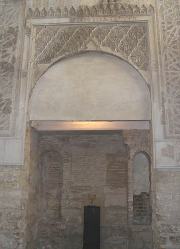 Tabernacle of the Synagogue of Córdoba, in Córdoba (Spain)